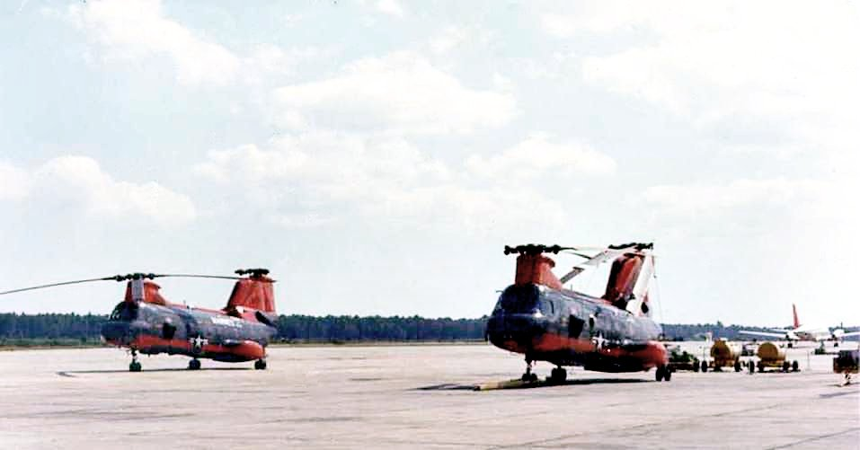 U.S. Marine Corps Boeing Vertol CH-46A Sea Knight helicopters at the SOES flight ramp, MCAS Cherry Point, North Carolina (USA), circa 1980. These were SAR models, see square loudspeaker voice left hand side of fuselage, about 1/3 of the way back from cockpit.